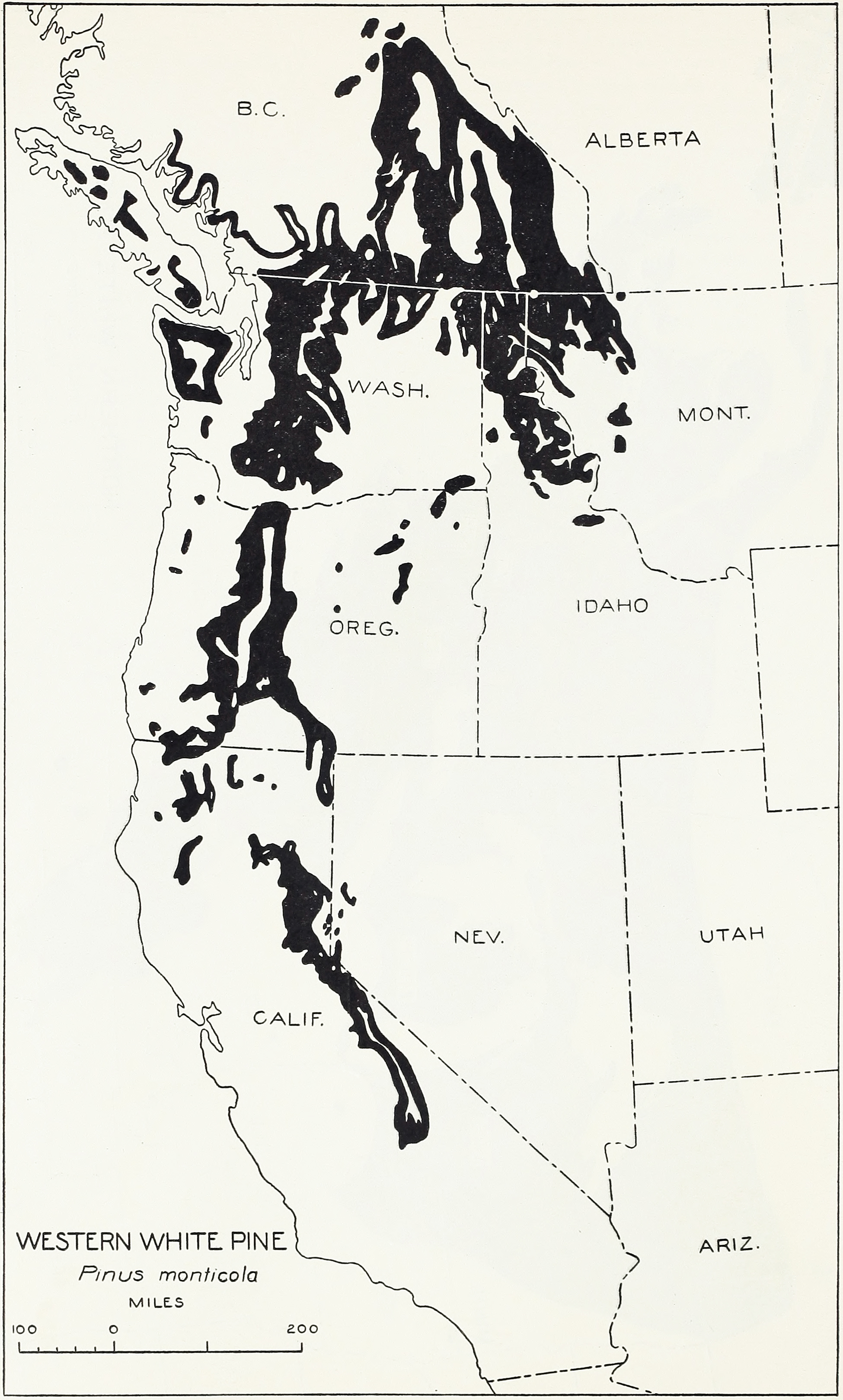 Title: The distribution of important forest trees of the United States Year: 1938 (1930s) Authors: Munns, E. N. (Edward Norfolk), 1889-1972 Subjects: Forests and forestry; Trees Publisher: Washington, D. C. : U. S. Dept. of Agriculture Text Appearing Before Image: ' Text Appearing After Image: WESTERN WHITE. PINEL Pin us monticola MILE.S ARIZ. 100 o -I I I L Map 2 PINUS MONTIOOLA DOUGLAS WESTERN WHITE PINE